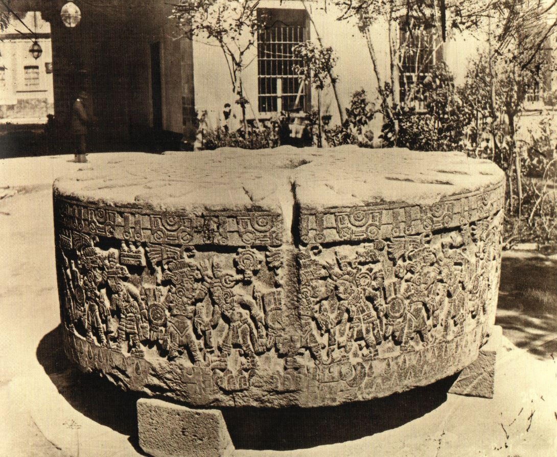 Anonimous picture of the Piedra de Tizoc ca. 1900